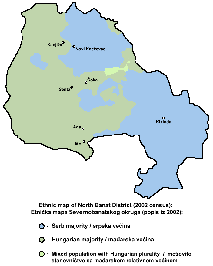 Ethnic map of North Banat District - 2002 census (data by settlements).Serbian: Етничка мапа Севернобанатског округа - попис из 2002 (подаци по насељима).